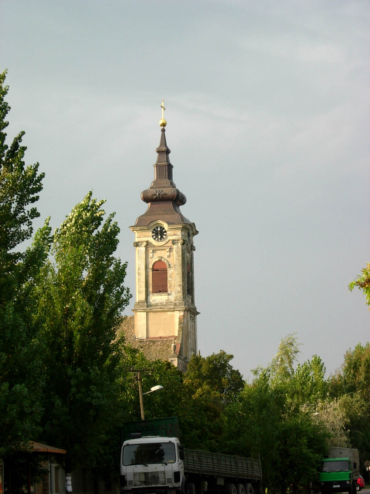 The Orthodox church in Bašaid.